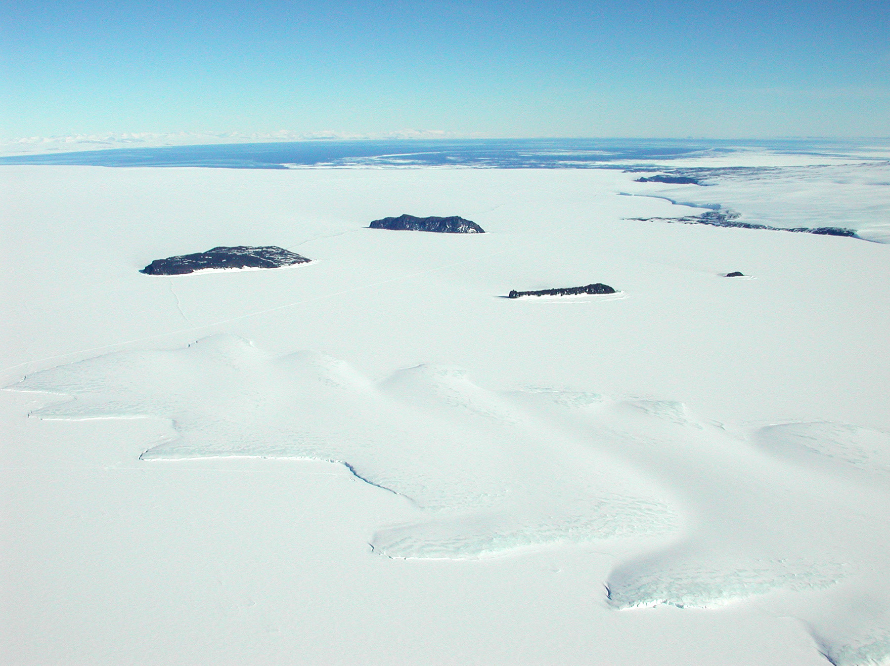 Aerial view of McMurdo Sound with Erebus Ice Tongue in the foreground and Ross Sea in the background, Antarctica.